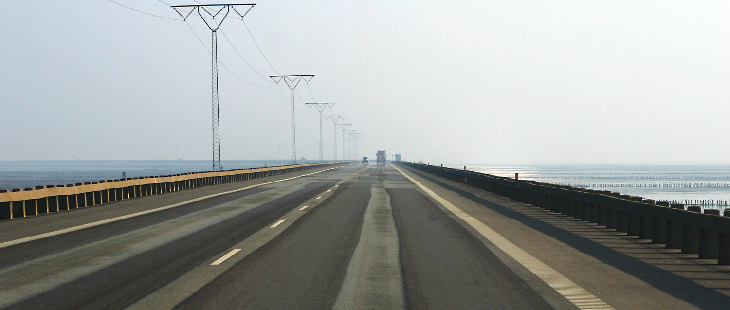 The 9.2 km long dam that leads to the danish island Rømø.